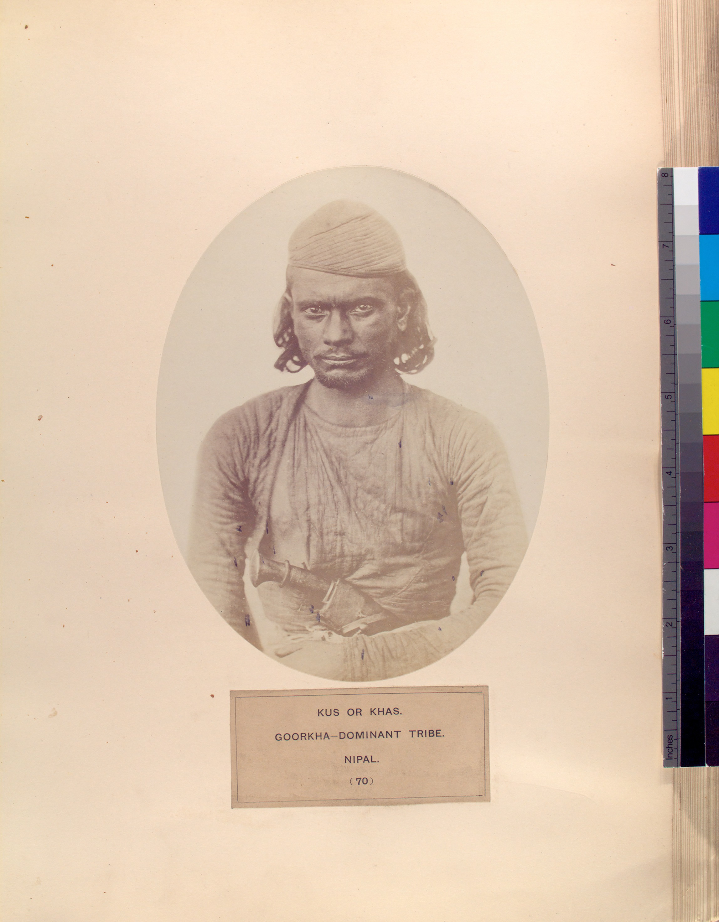 Letterpress label measures 40 x 85 mm.